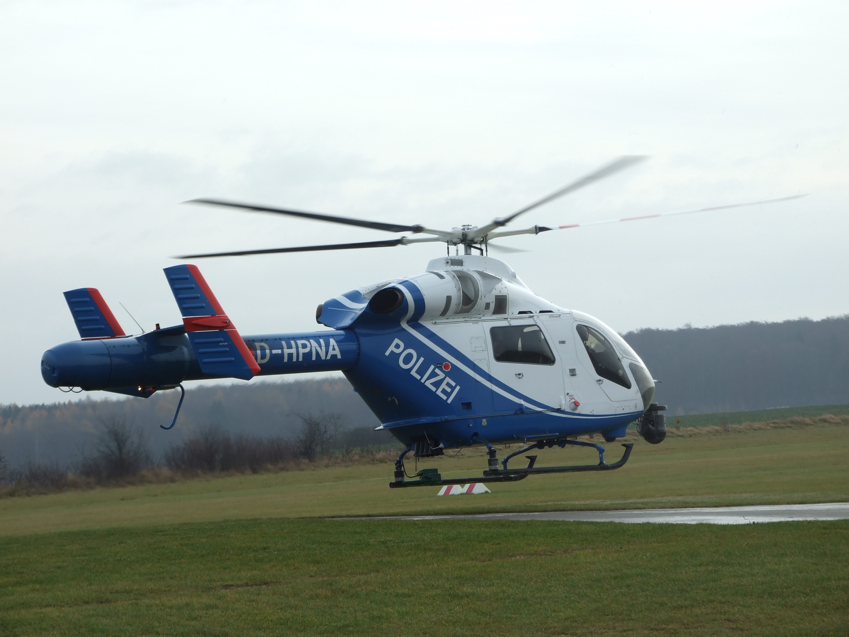 A helicopter type "MD 902 Explorer" "D-HPNA" of the police of Lower Saxony at Bad Gandersheim Airport